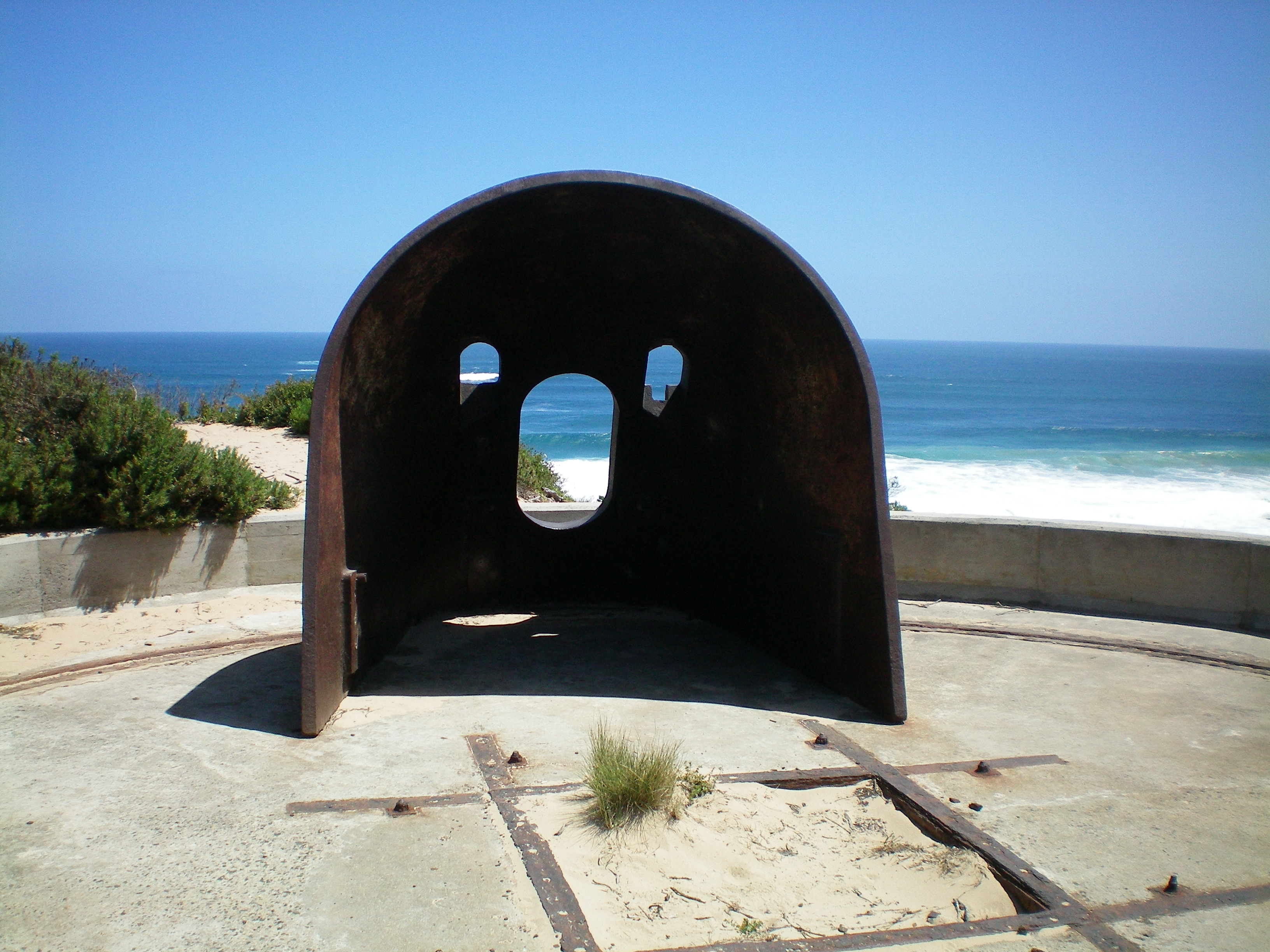 Shield for a 6 inch Mark VII gun previously mounted at Fort Nepean, Victoria, Australia.